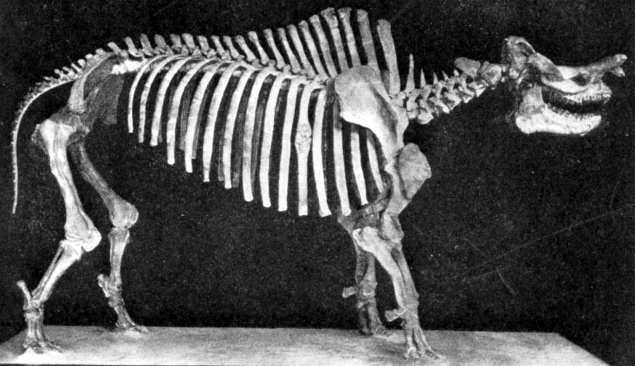 Brontotherium gigas skeleton, AMNH.